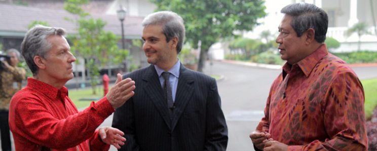 Ben Moses talks with Prince Moulay Hicham of Morocco and President Yudhoyono of Indonesia during the filming of the political documentary "A Whisper to a Roar."